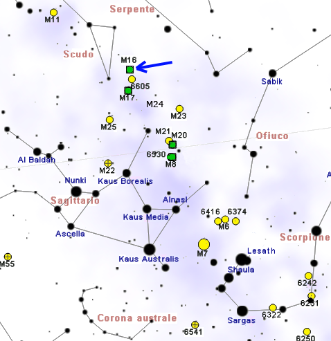 M16